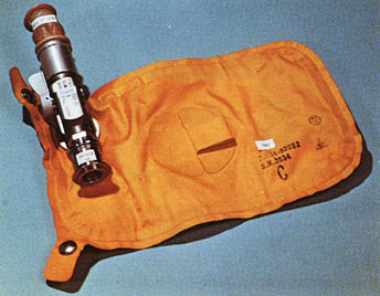 Apollo urine transfer system (UTS) with roll-on cuff.